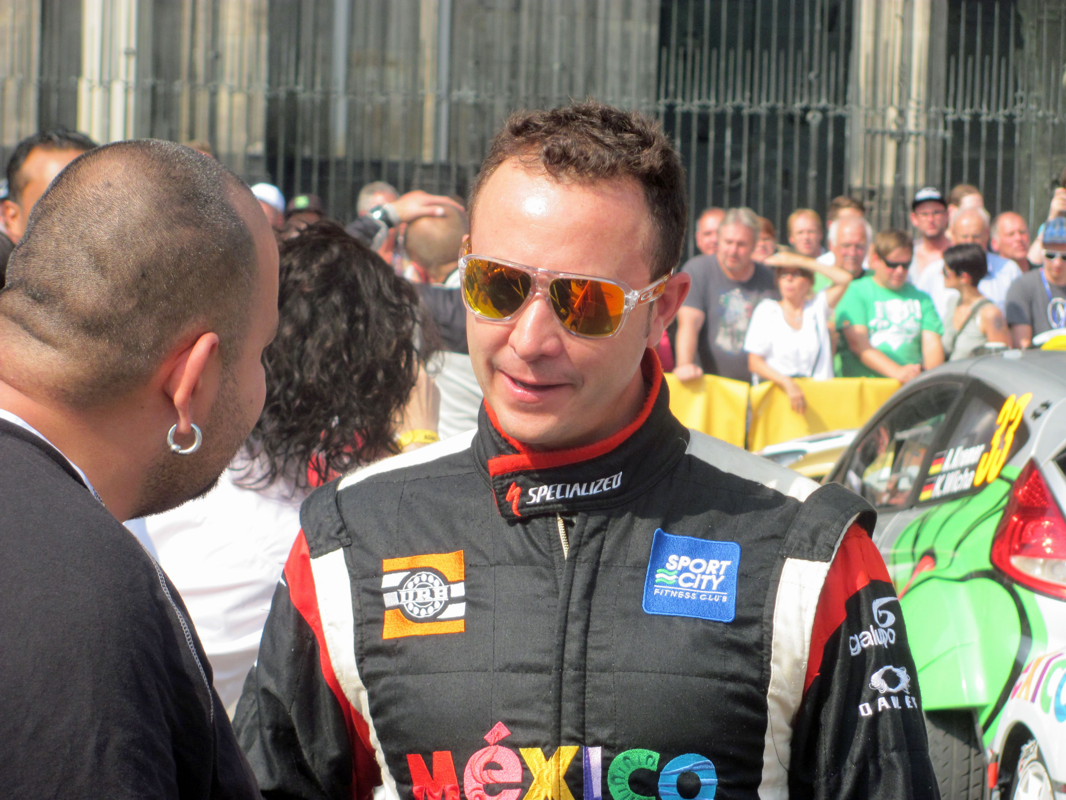 Ricardo Trivino